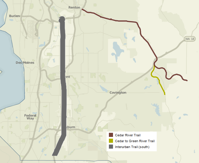 Interurban Trail route map. Created with Tableau.